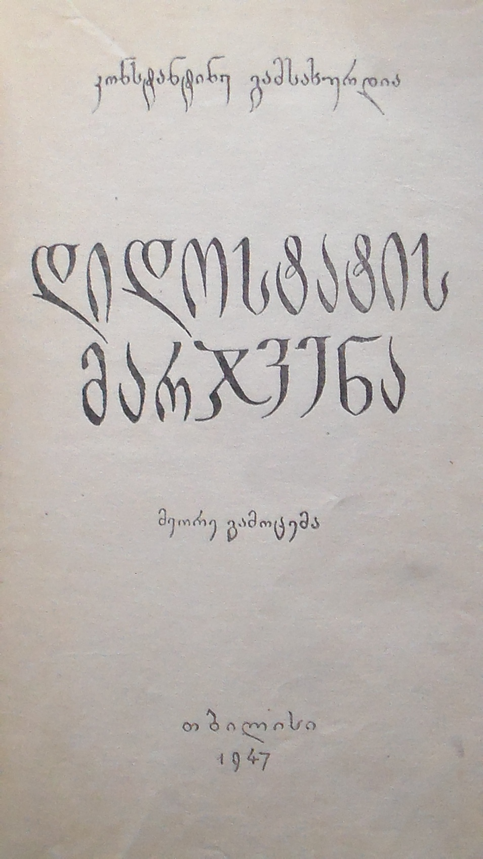 First page from the first edition of The Right Hand of the Grand Master by Konstantine Gamsakhurdia.